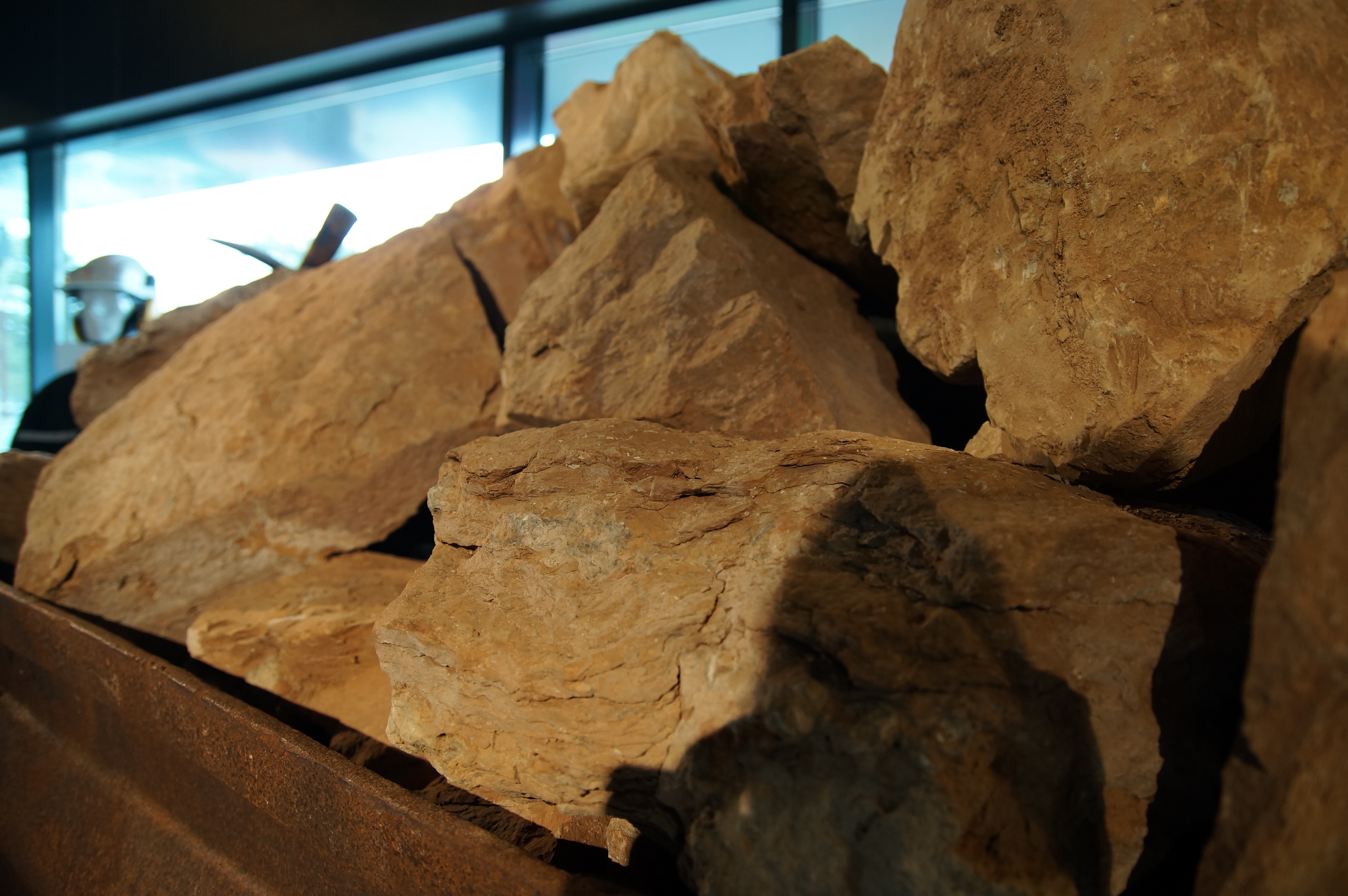 Huge pieses of estonian oil shale. Photo was taken in TUT muuseum of enegry.